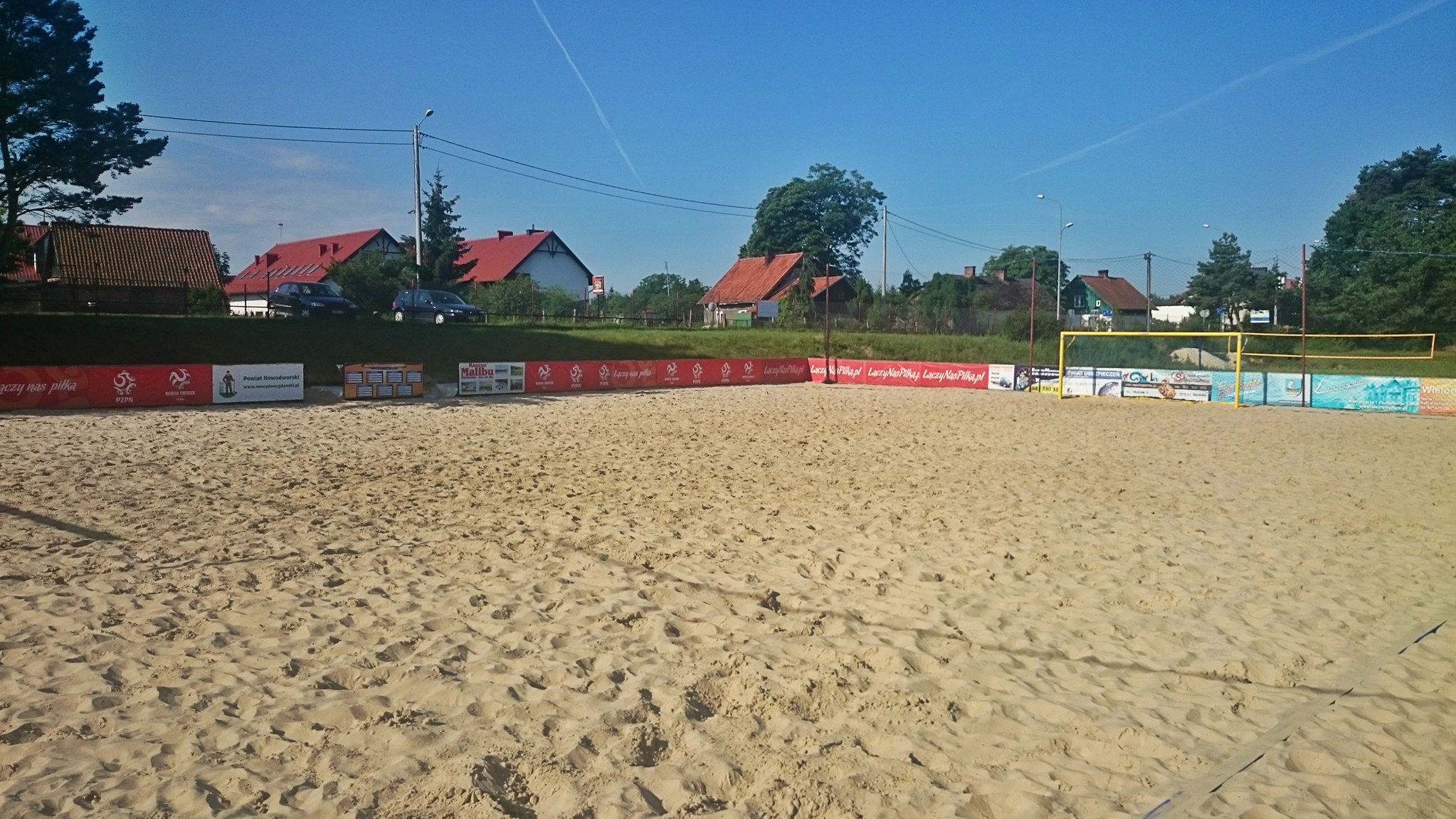 Beach Soccer Stadium in Sztutowo, Poland